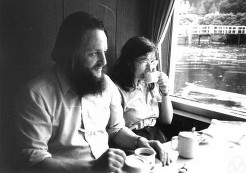 John Horton Conway (left) with Larissa Queen on a boat trip